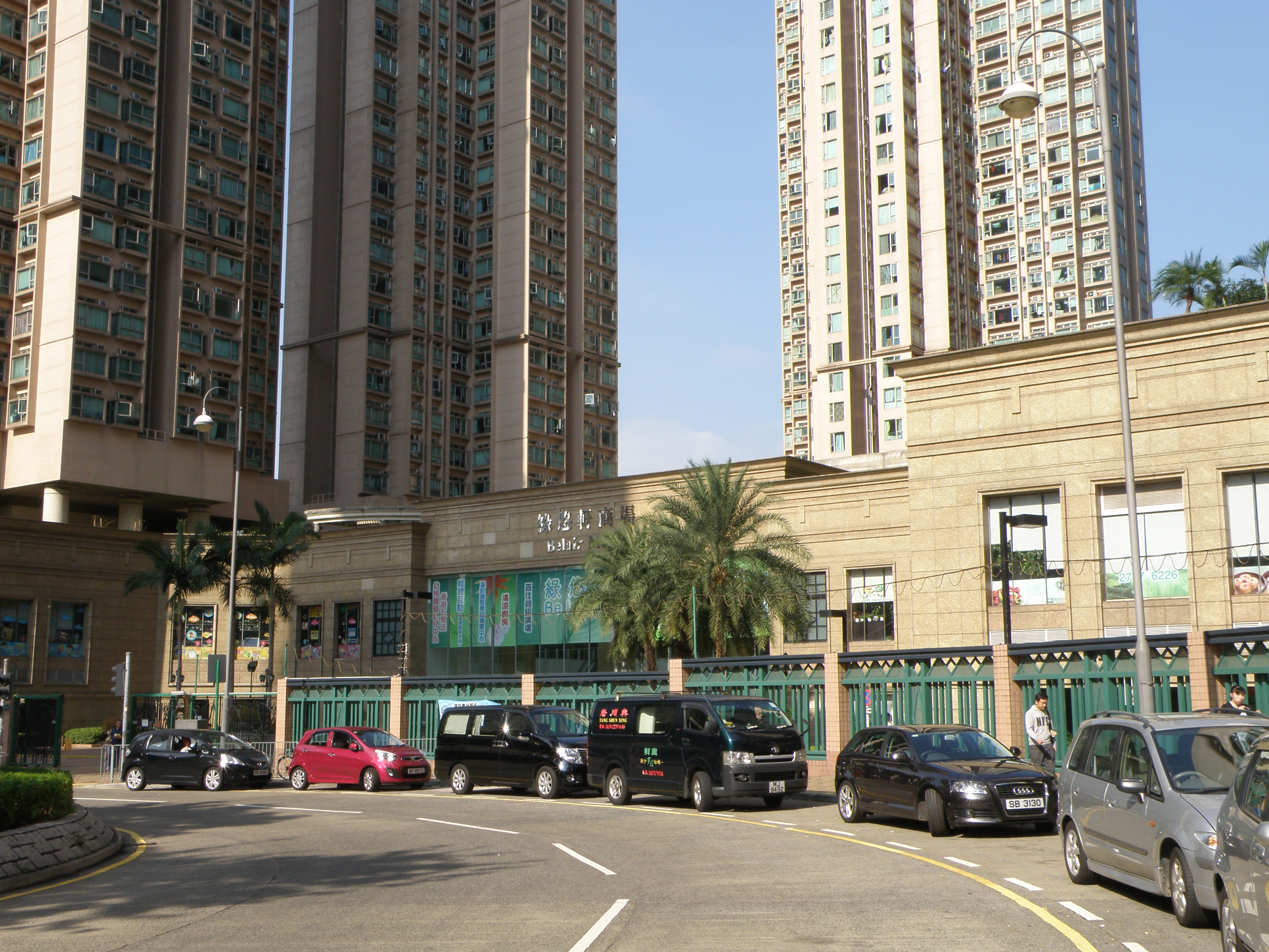 Belair Monte in Luen Wo Hui, Hong Kong.